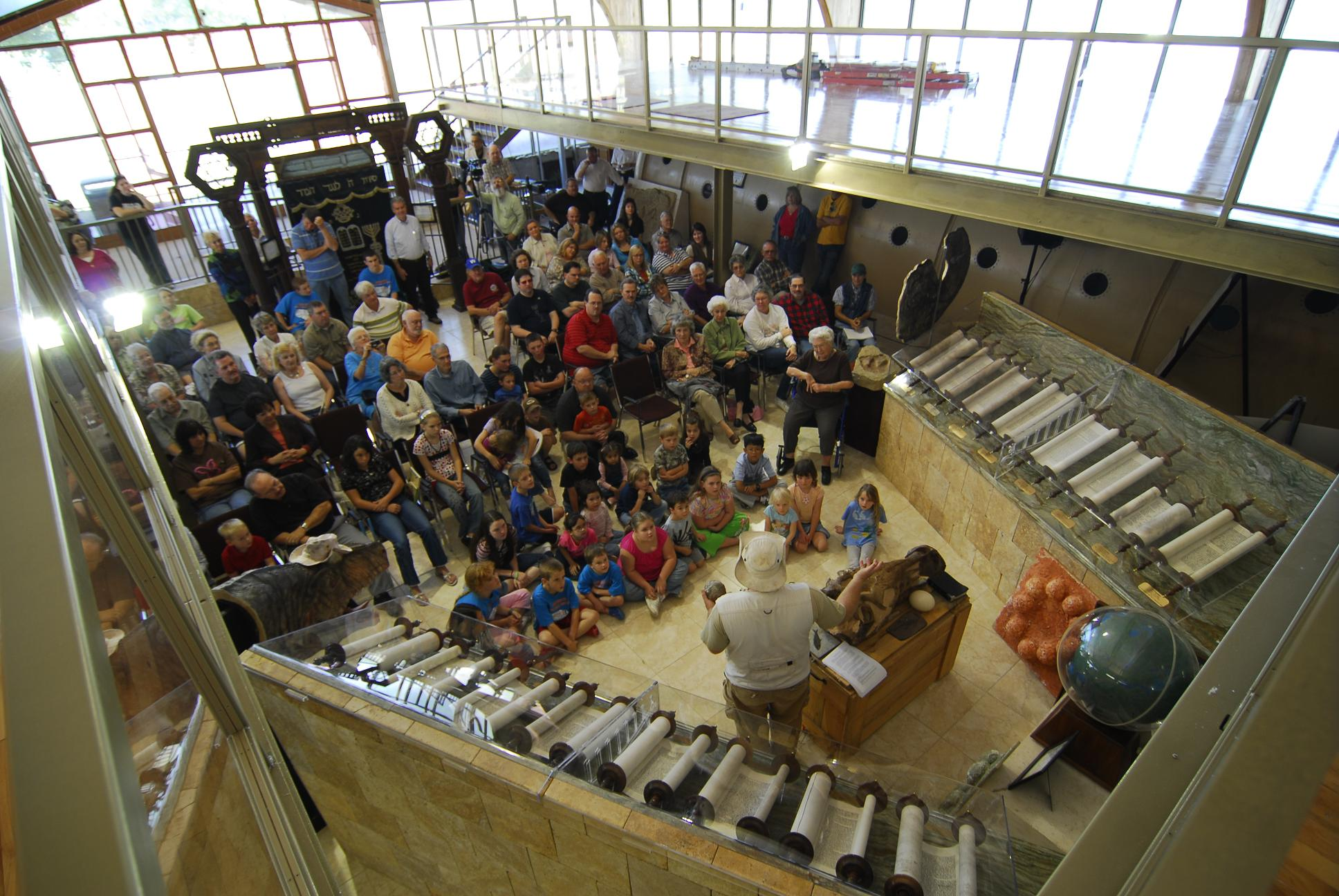 Director's lecture day at CEM.